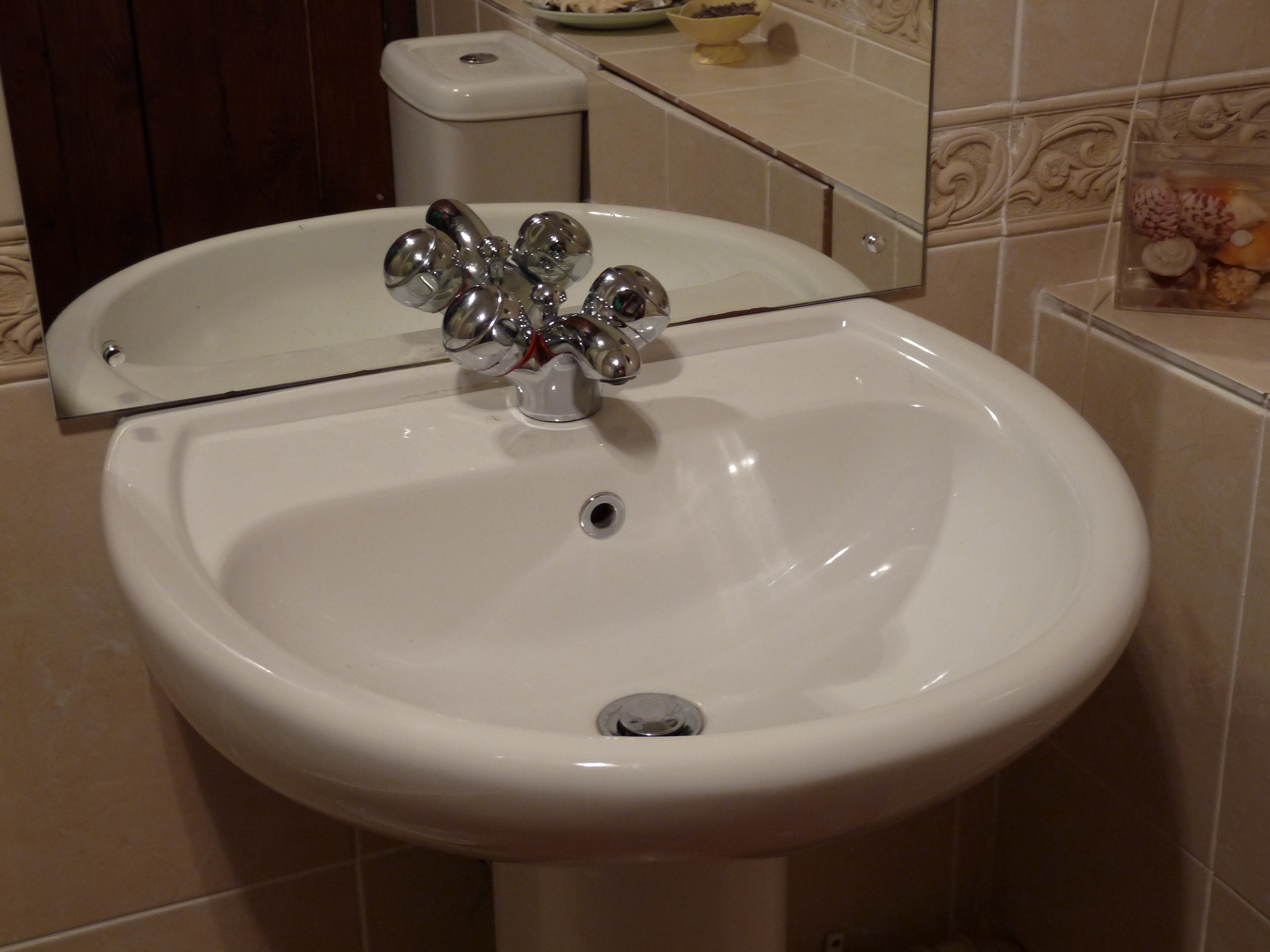 A white ceramic bathroom sink